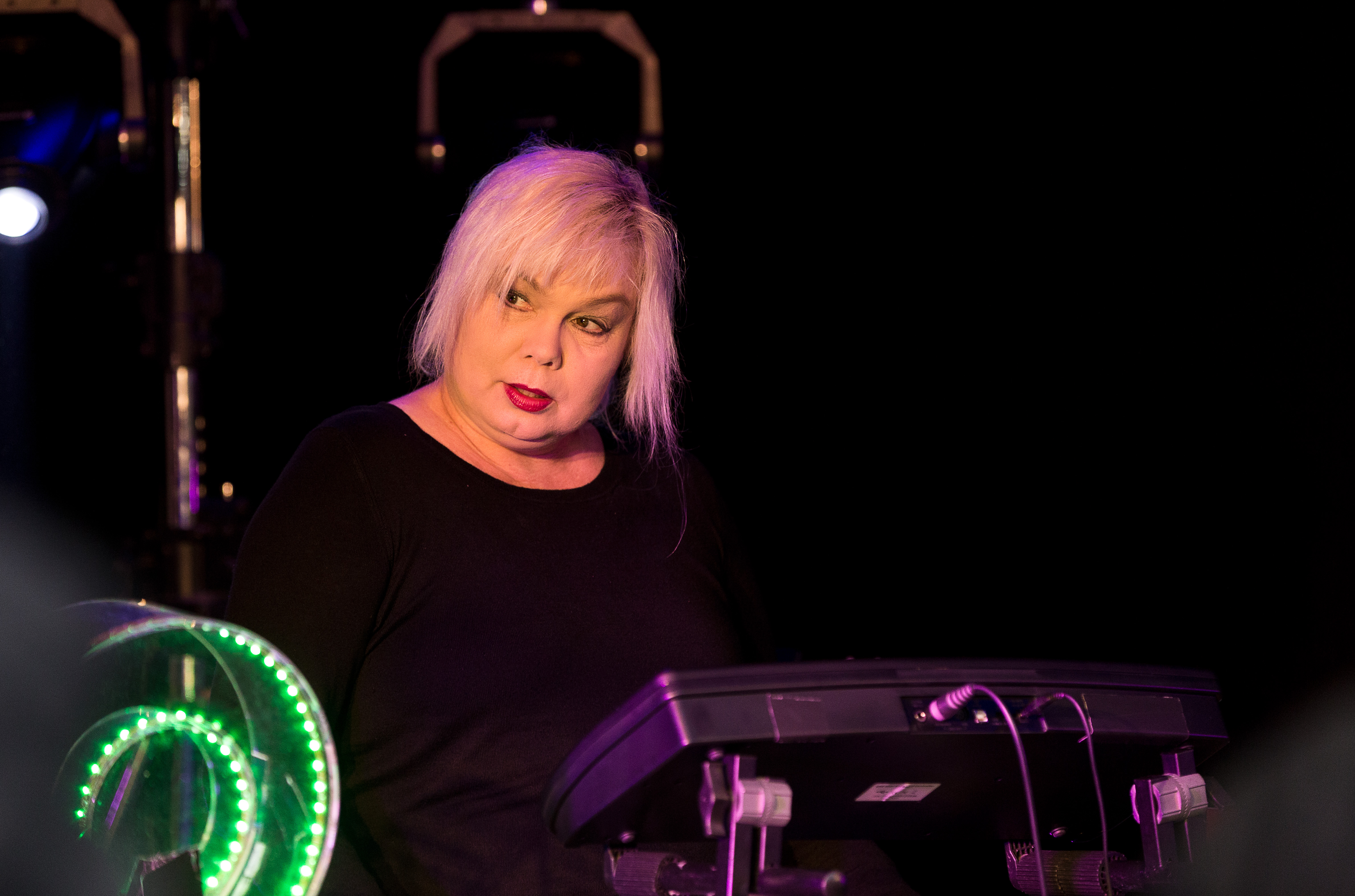 The German post punk band No More at the Nocturnal Culture Night 10 2015 in Deutzen/Germany.